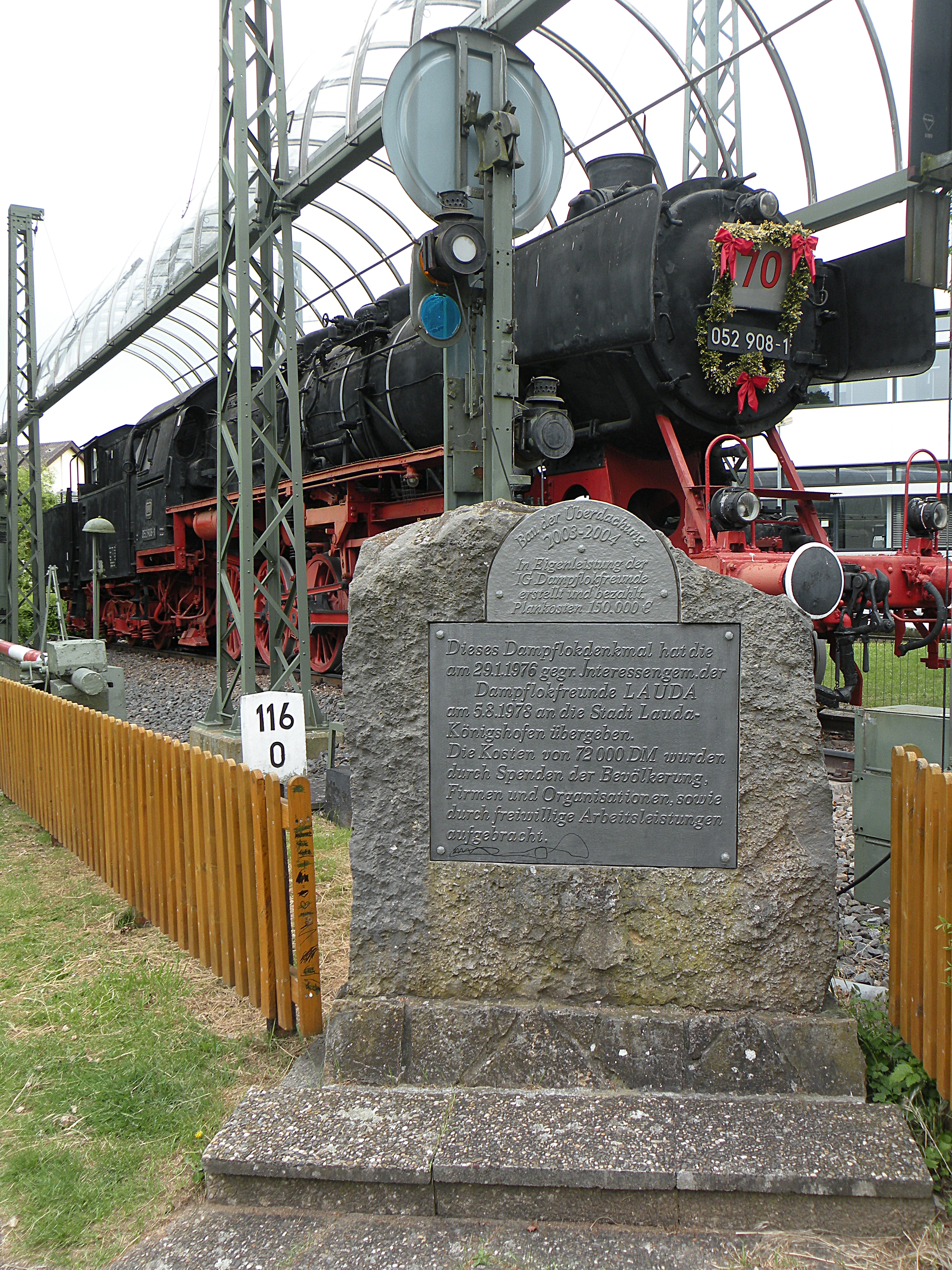 DB 052 908-1 (former 50 2908) as a railway-monument in Lauda (Germany)